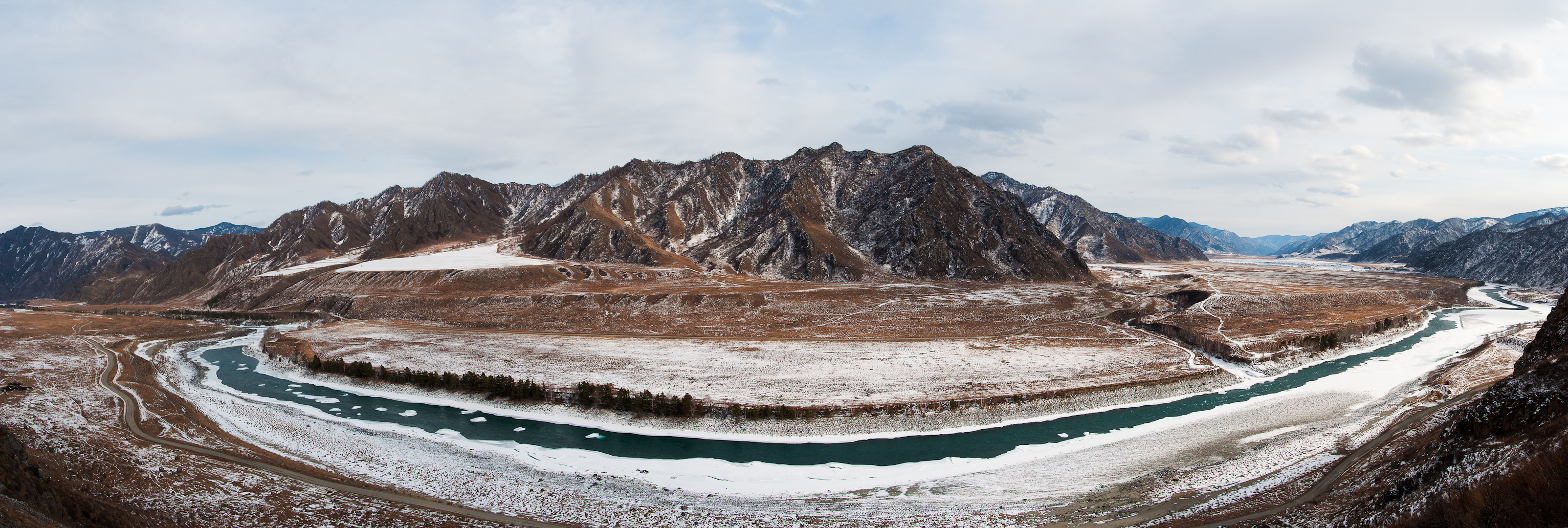 Chemalsky District, Altai Republic, Russia